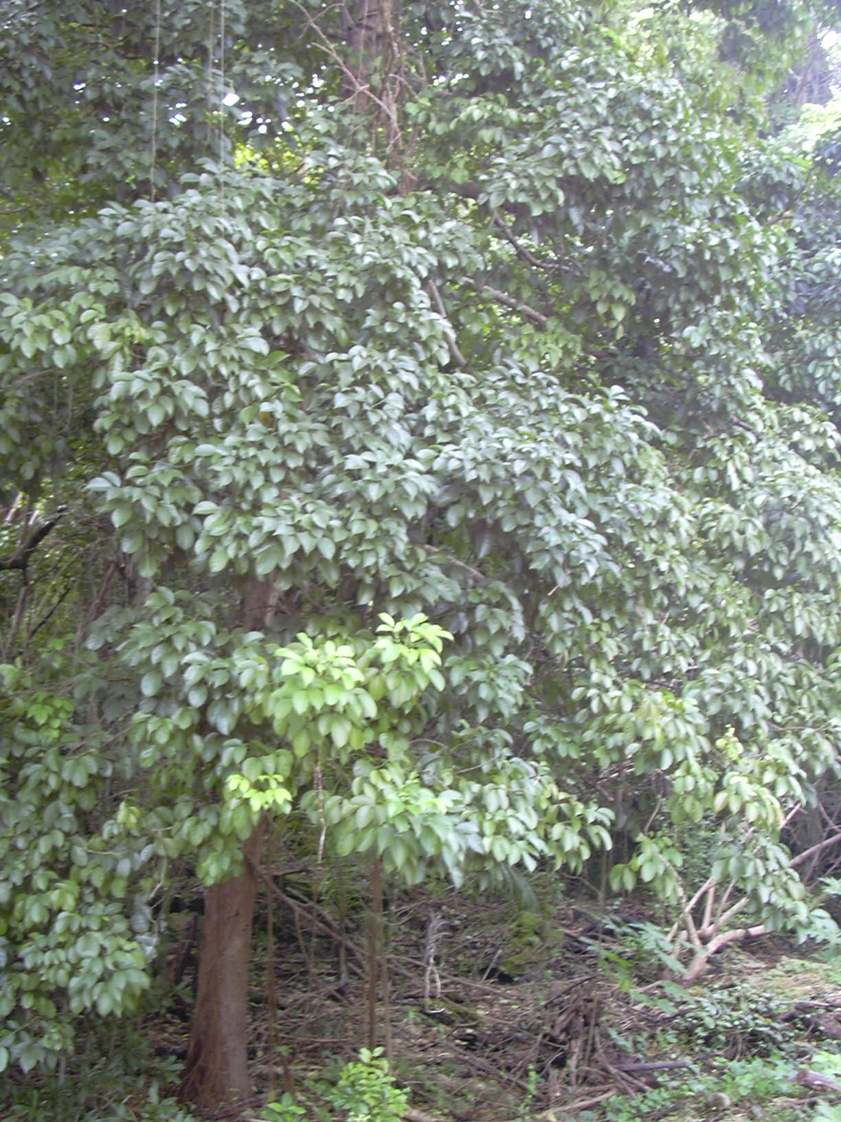 Bischofia javanica (habit). Location: Florida, Deering Park